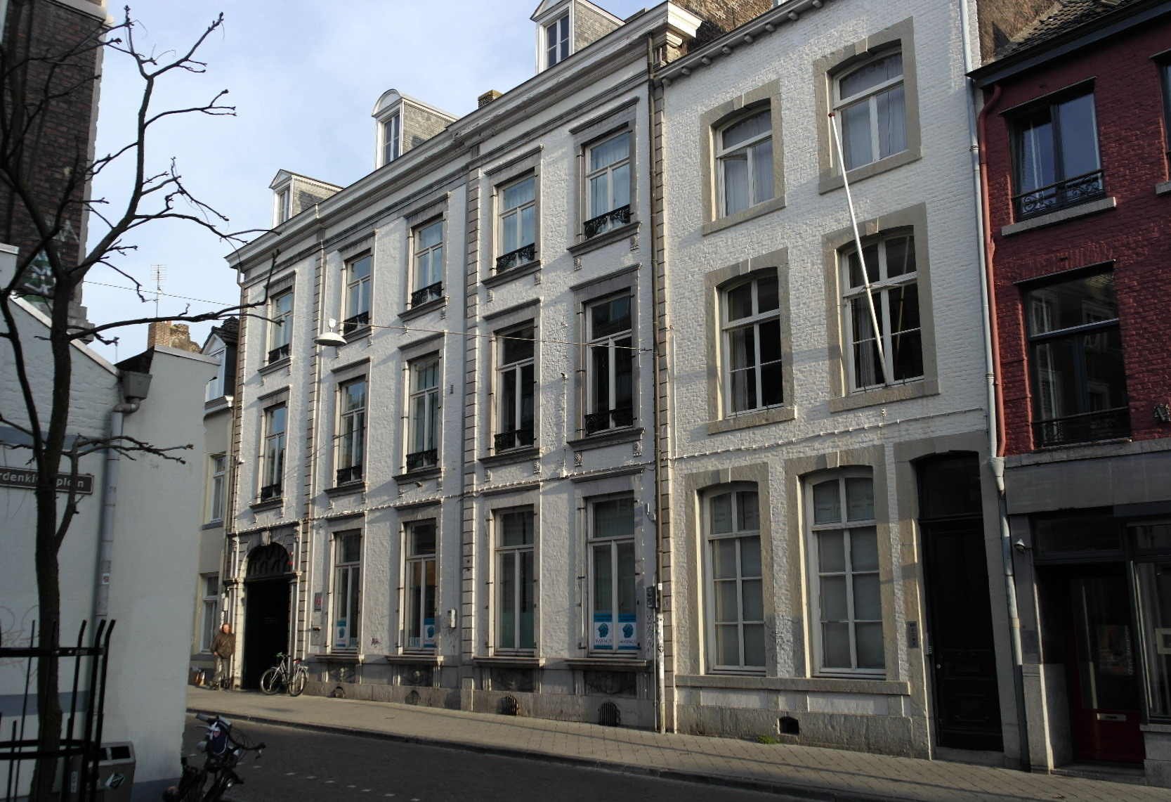 Maastricht, the Netherlands. View of Brusselsestraat.